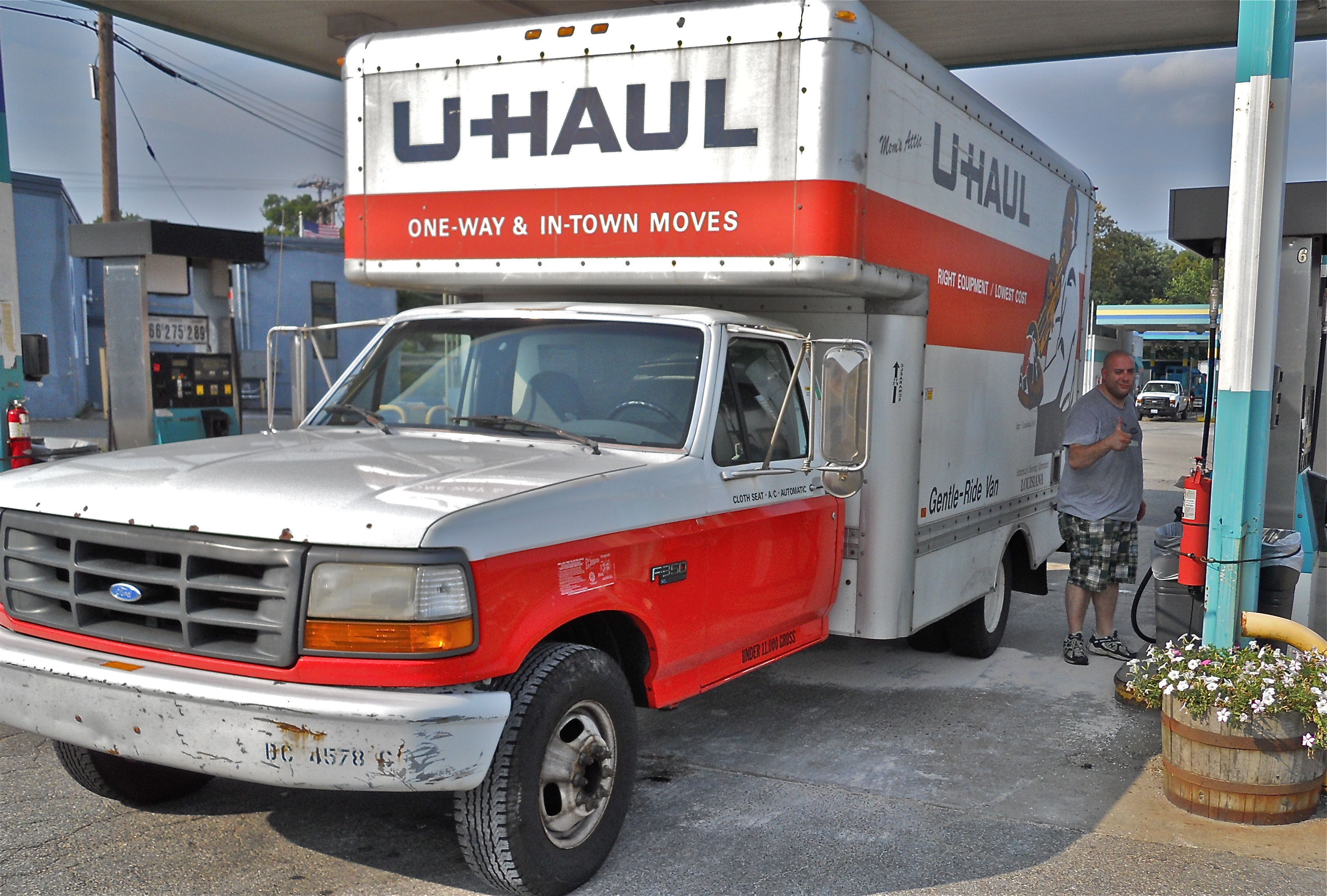 U-Haul van being refueled on the Route 1 Bypass in Portsmouth, NH